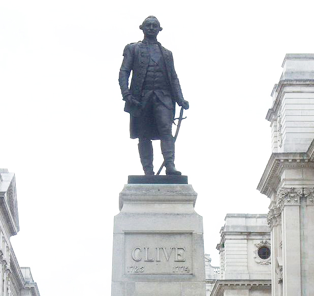 the monument of Robert Clive, 1st Baron Clive in London